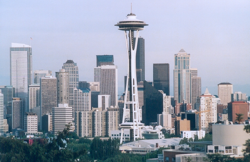 View of the city of Seattle, Washington, USA.